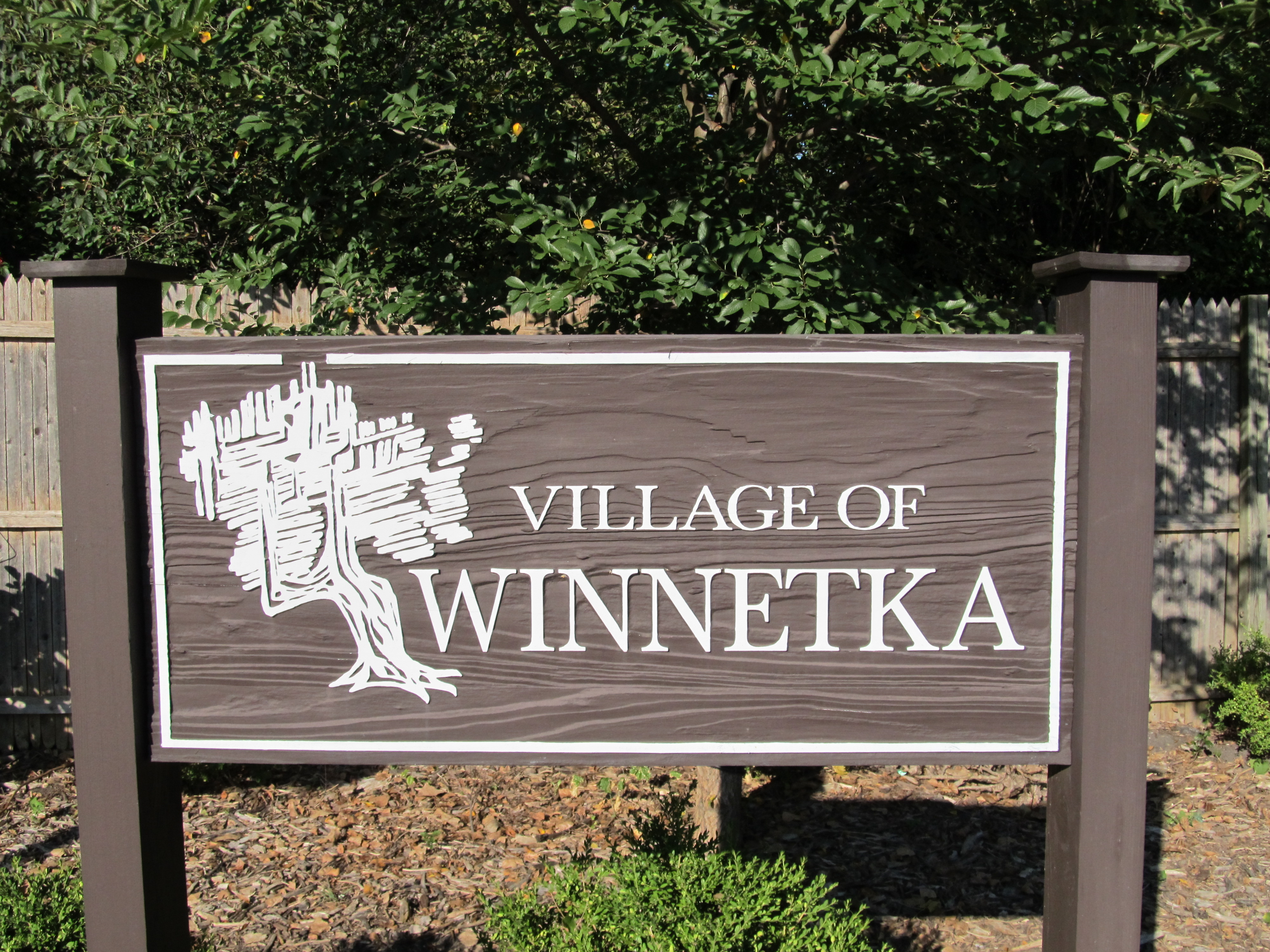 "Welcome to Winnetka". Winnetka, Illinois.